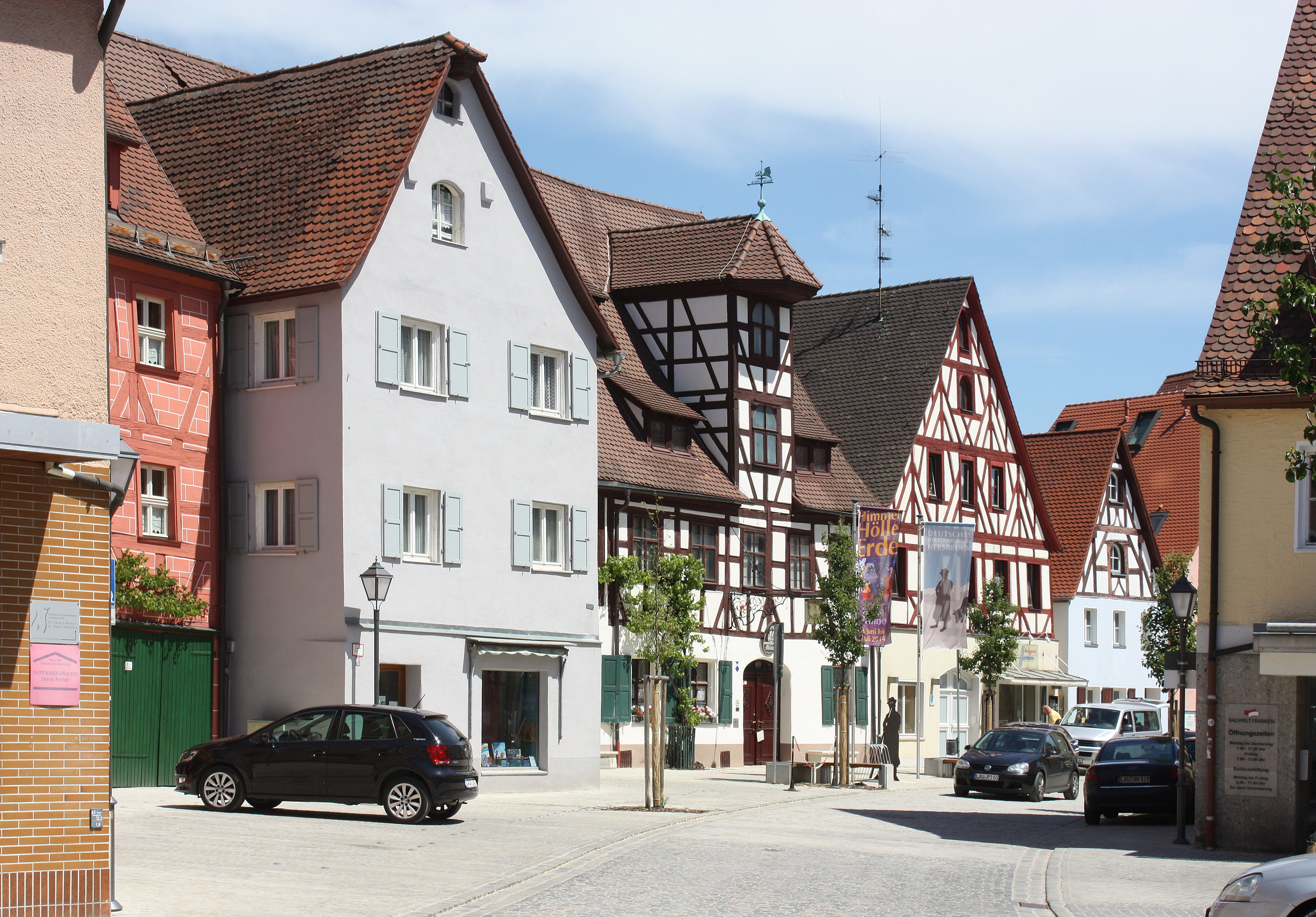 Hersbeuck, the shepherd museum and the house 5 EisenhüttleinThis is a photograph of an architectural monument. und 22